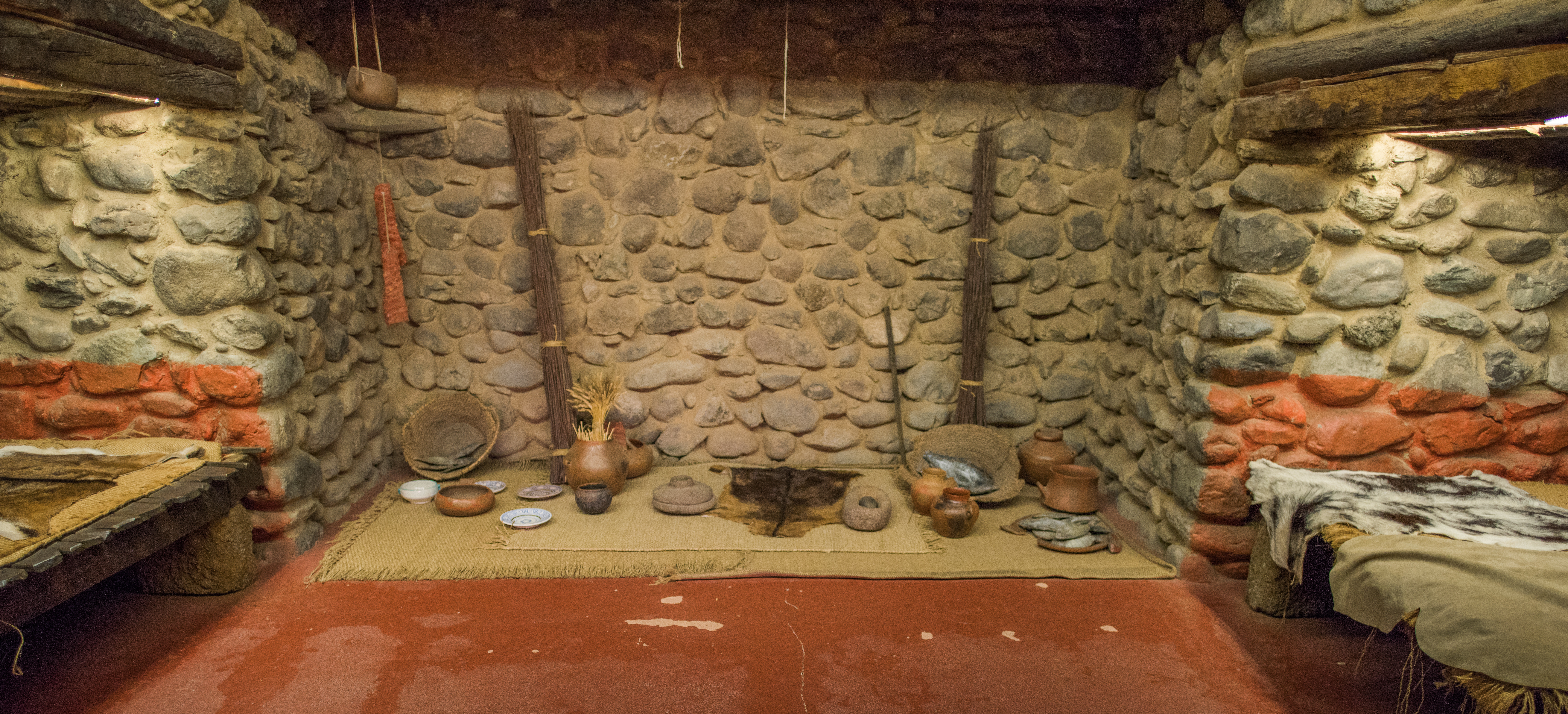 Sardina Gran Canaria January 2016